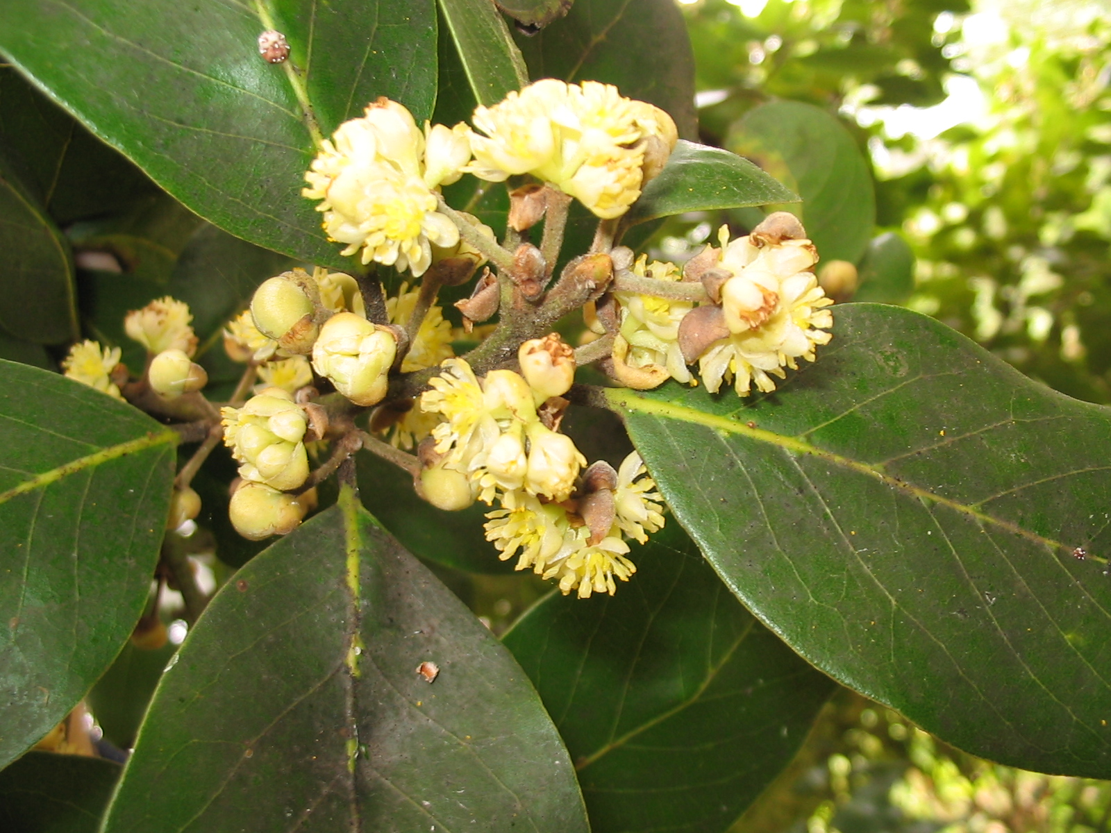 Azoren-Lorbeer (Laurus azorica) - Flowers